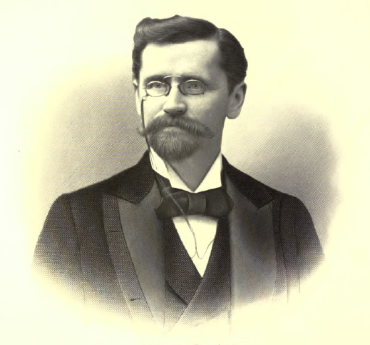 Henri-Benjamin Rainville (April 5, 1852 – August 10, 1937) was a Canadian lawyer, politician and Speaker of the Legislative Assembly of the Province of Quebec. Source: An Encyclopedia of Canadian biography. Containing brief sketches and steel engravings of Canada's prominent men Publisher: Montreal Canadian Press Syndicate Date: 1904-07